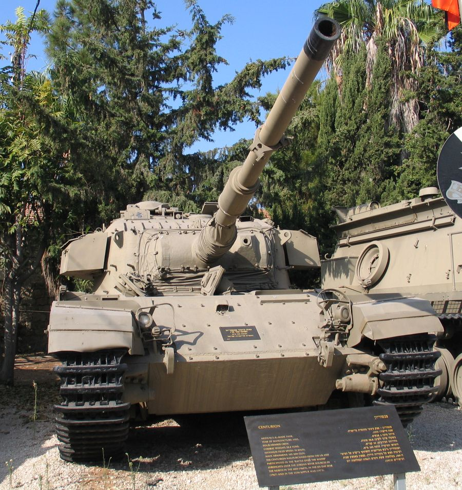 Description: Centurion (Shot Kal Alef) tank in Batey ha-Osef museum, Tel Aviv, Israel. 2005. Source: Photo by me, User:Bukvoed.